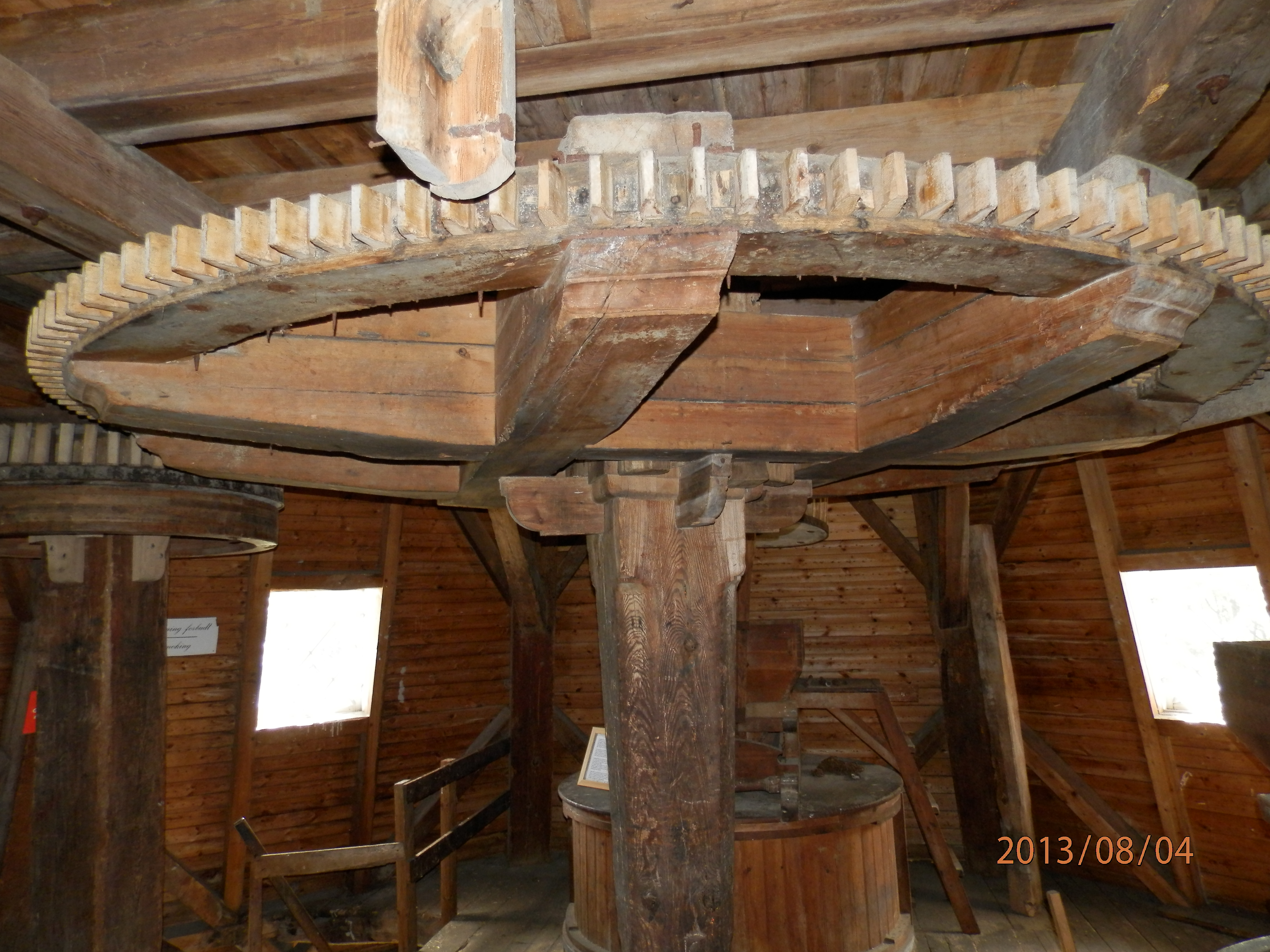 Inside of a windmill located in Karlebo, Denmark